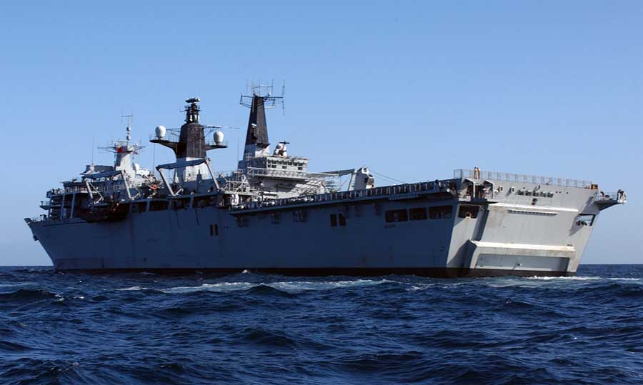 HMS Bulwark (L15)